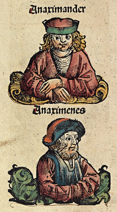 Woodcut from the Nuremberg Chronicle